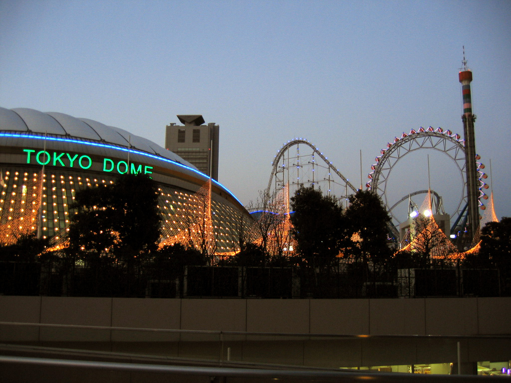 The Tokyo Dome and Tokyo Dome City amusement park.